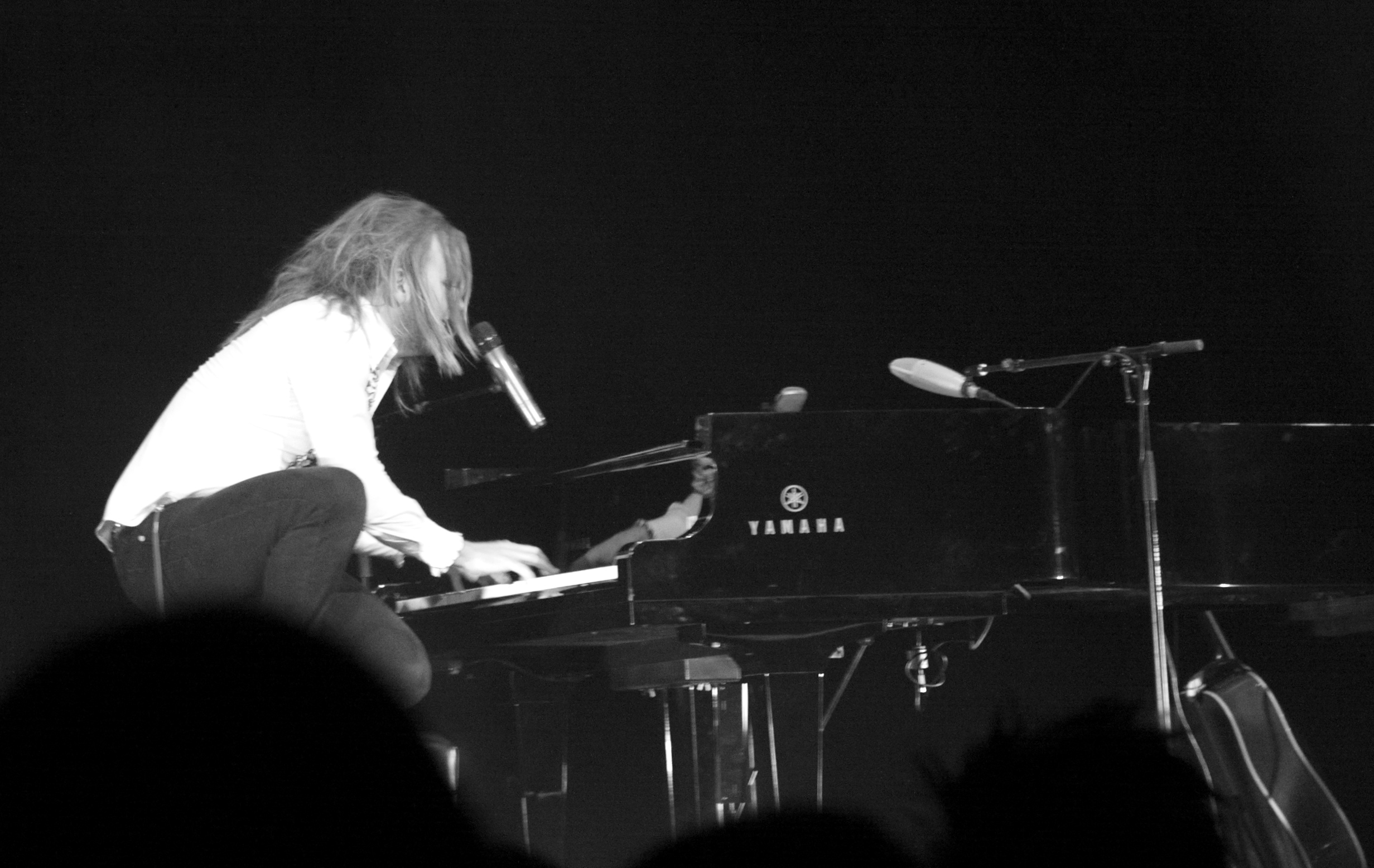 Tim Minchin